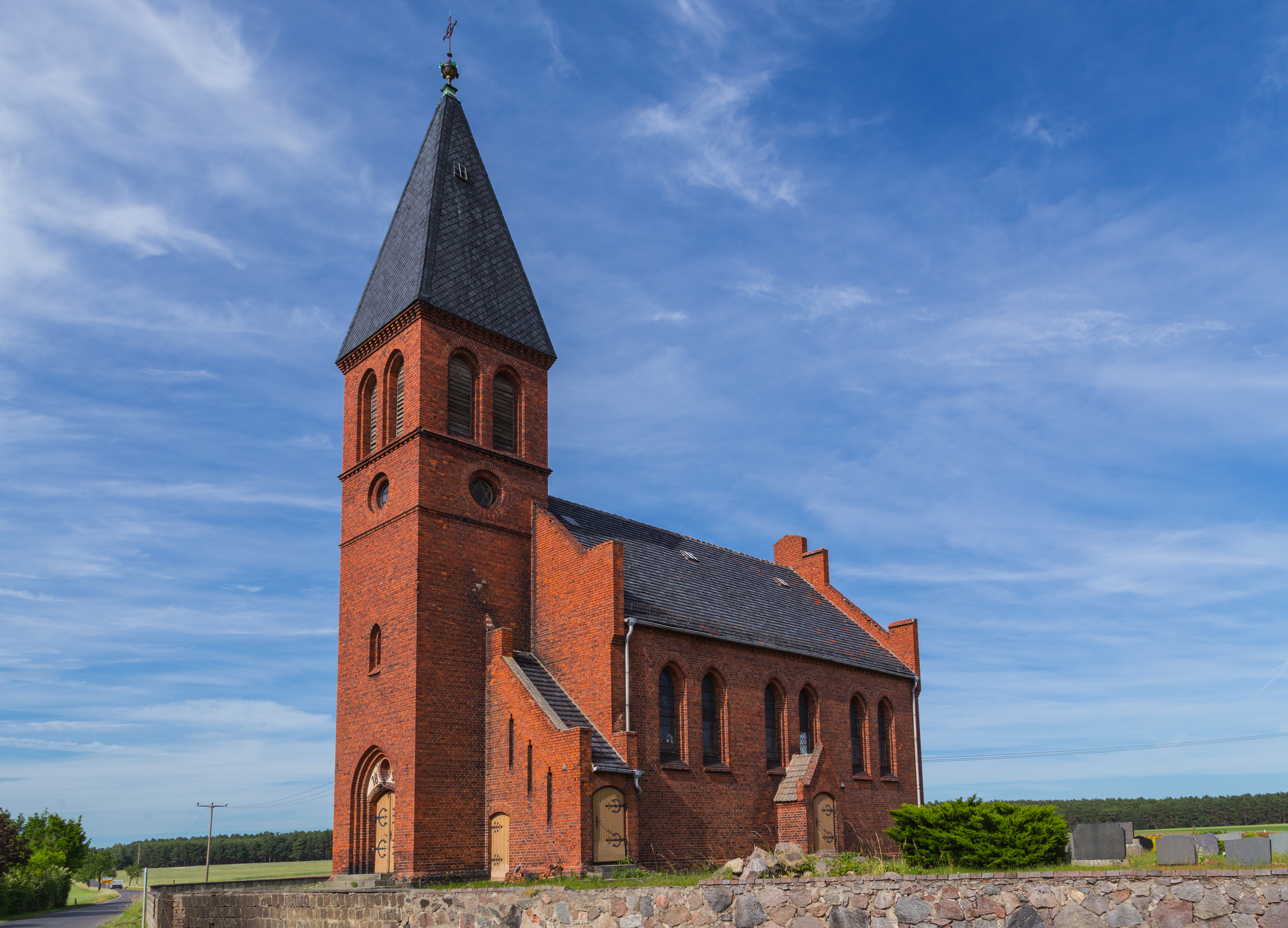 The Protestant Village Church (Dorfkirche) of Groß Briesen, district of Friedland, Landkreis Oder-Spree, Brandenburg, Germany.